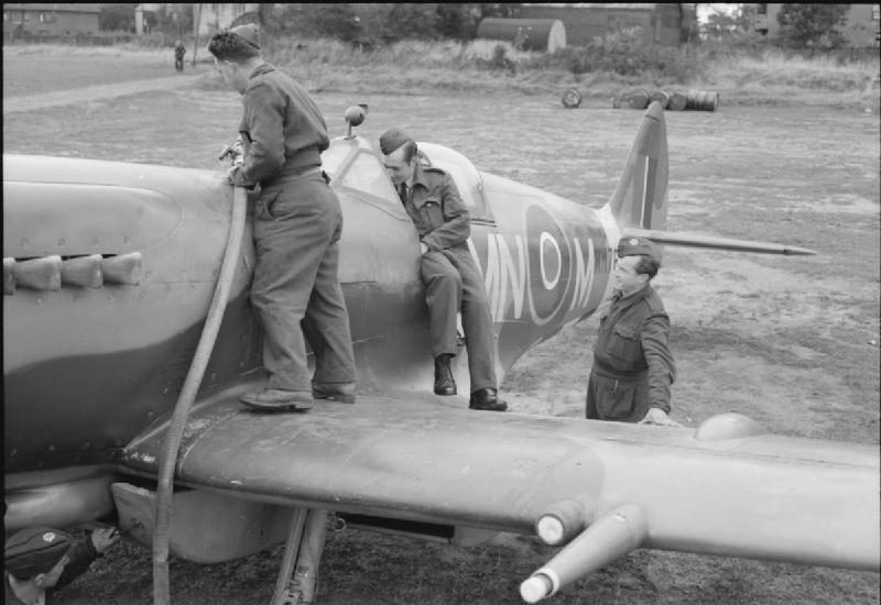 Royal Air Force- Air Defence of Great Britain (adgb), 1943-1944. Belgian ground crew refuelling Supermarine Spitfire Mark XIVE, RM764 'MN-M', of No. 350 (Belgian) Squadron RAF at Lympne, Kent.